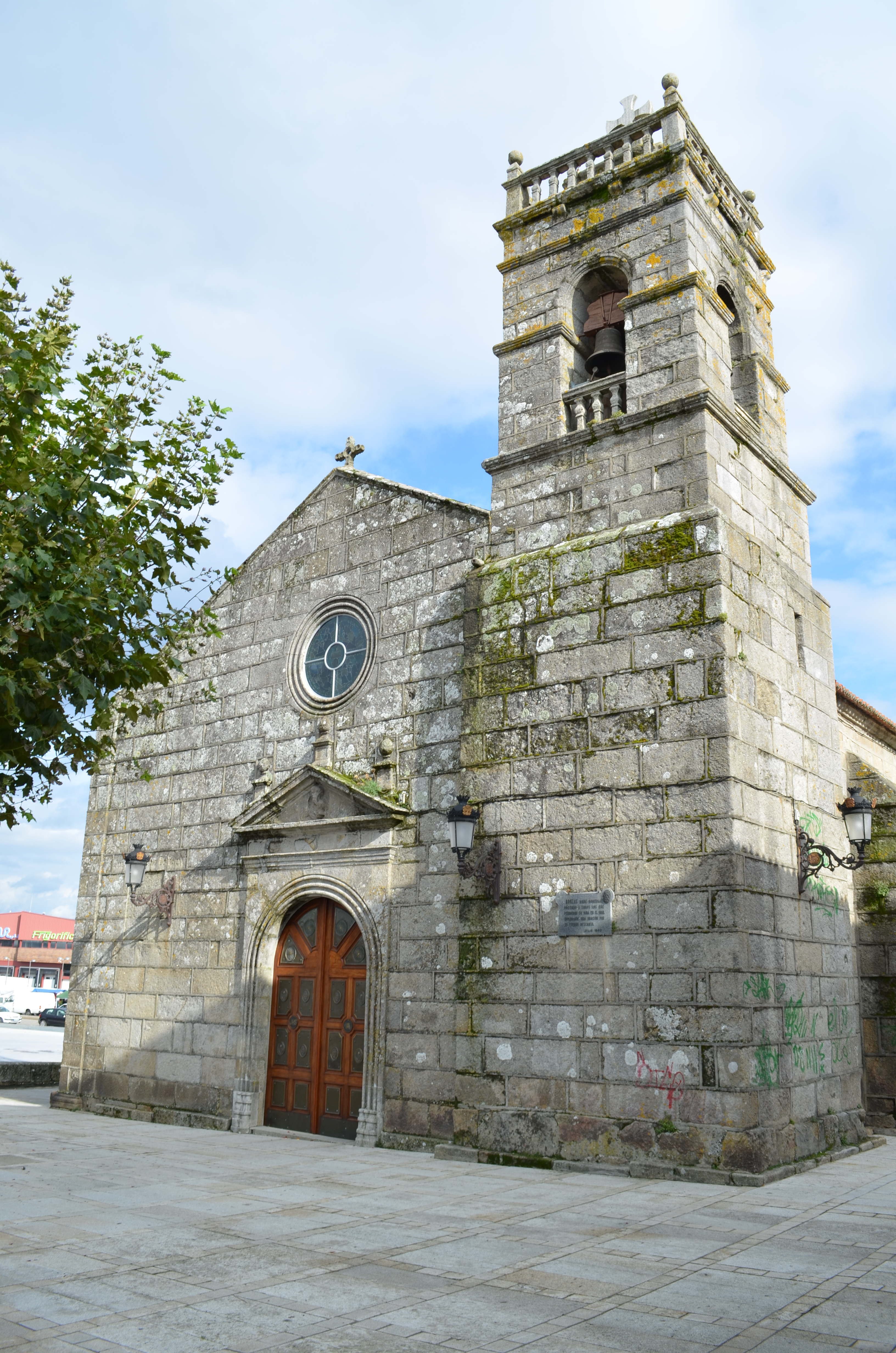 2014-11-09 - Iglesa De San Miguel - Bouzas - Vigo - Spain (7)